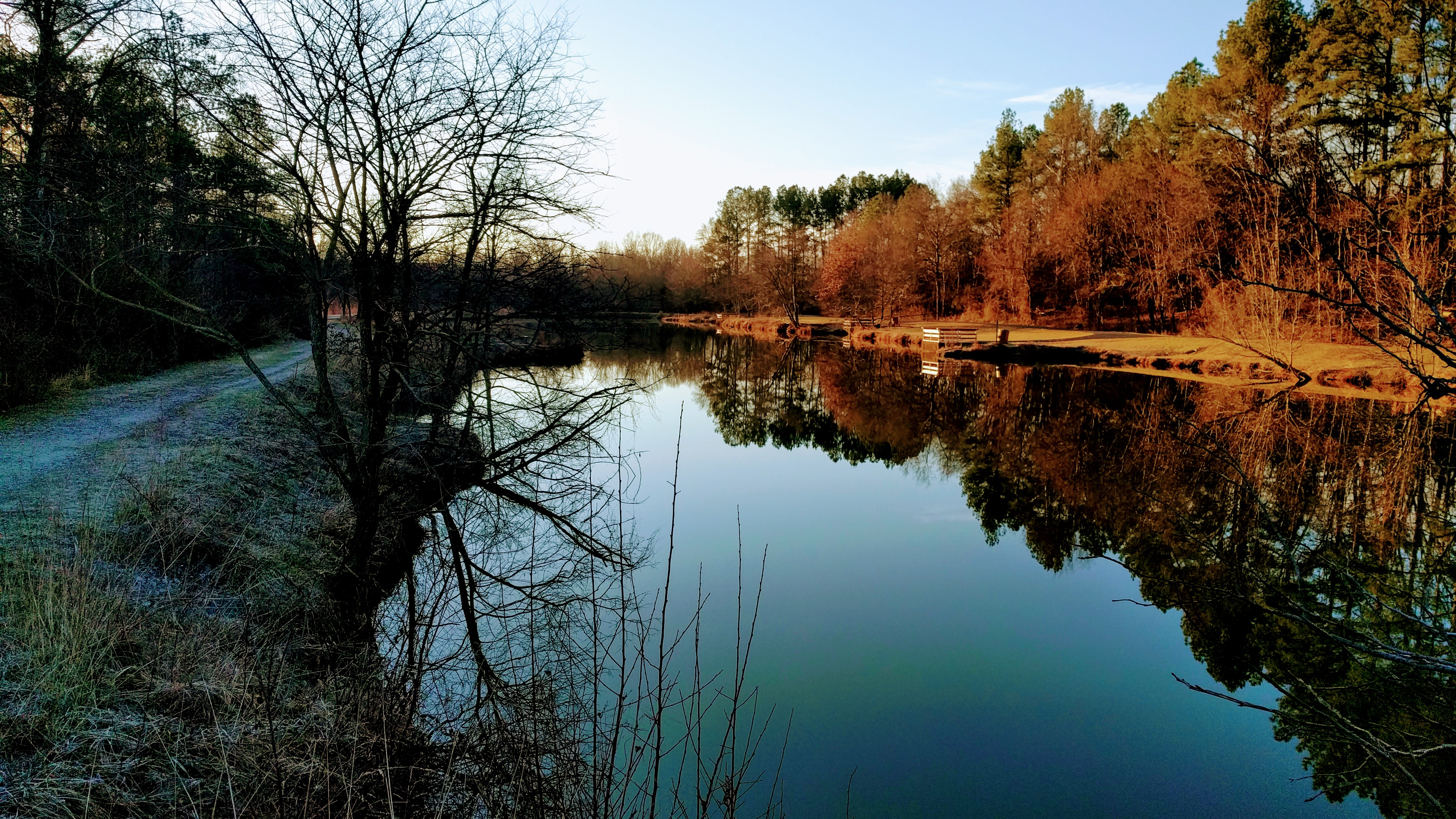 Mulligan pond